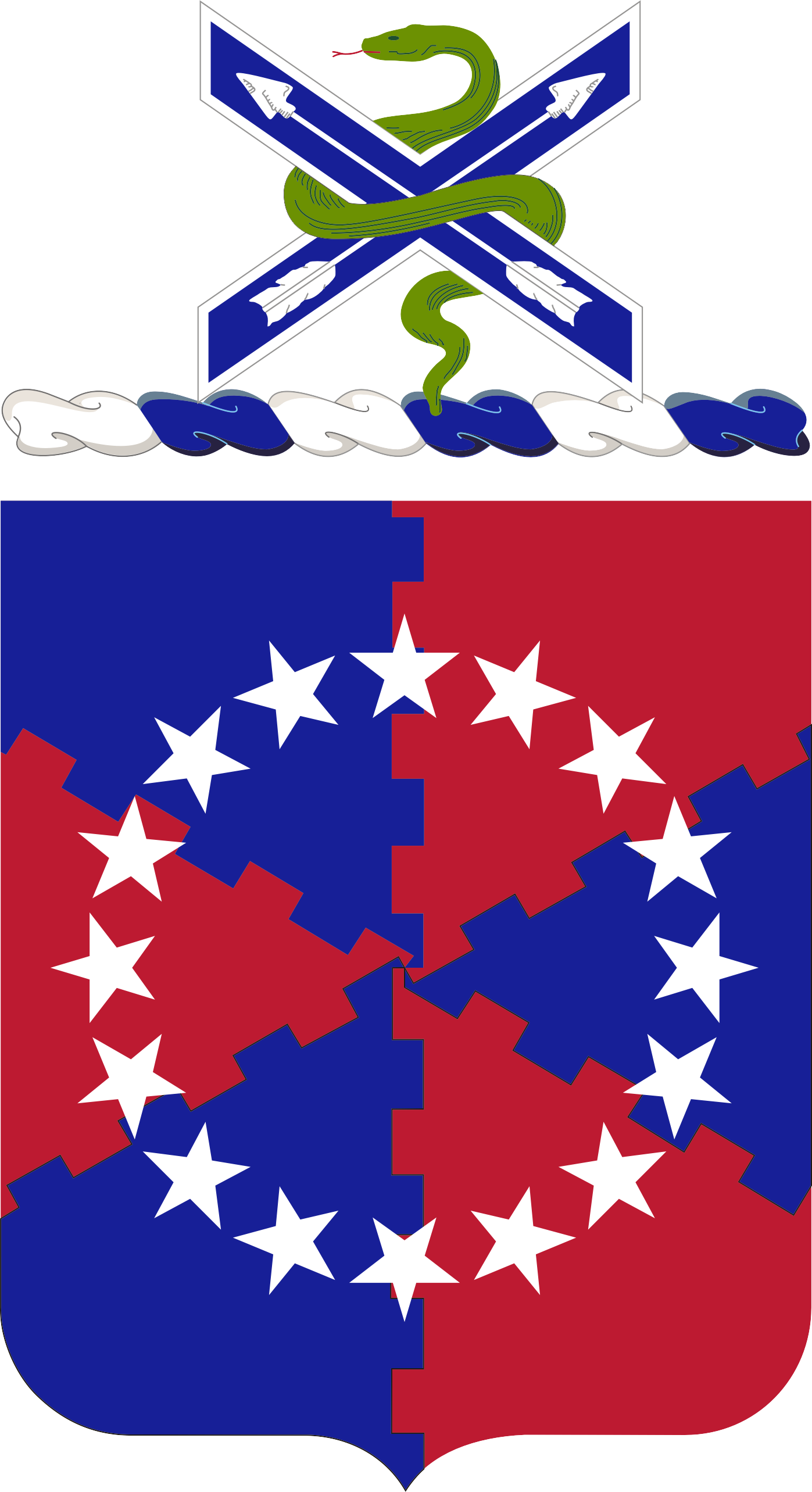 62nd Coast Artillery Coat of Arms